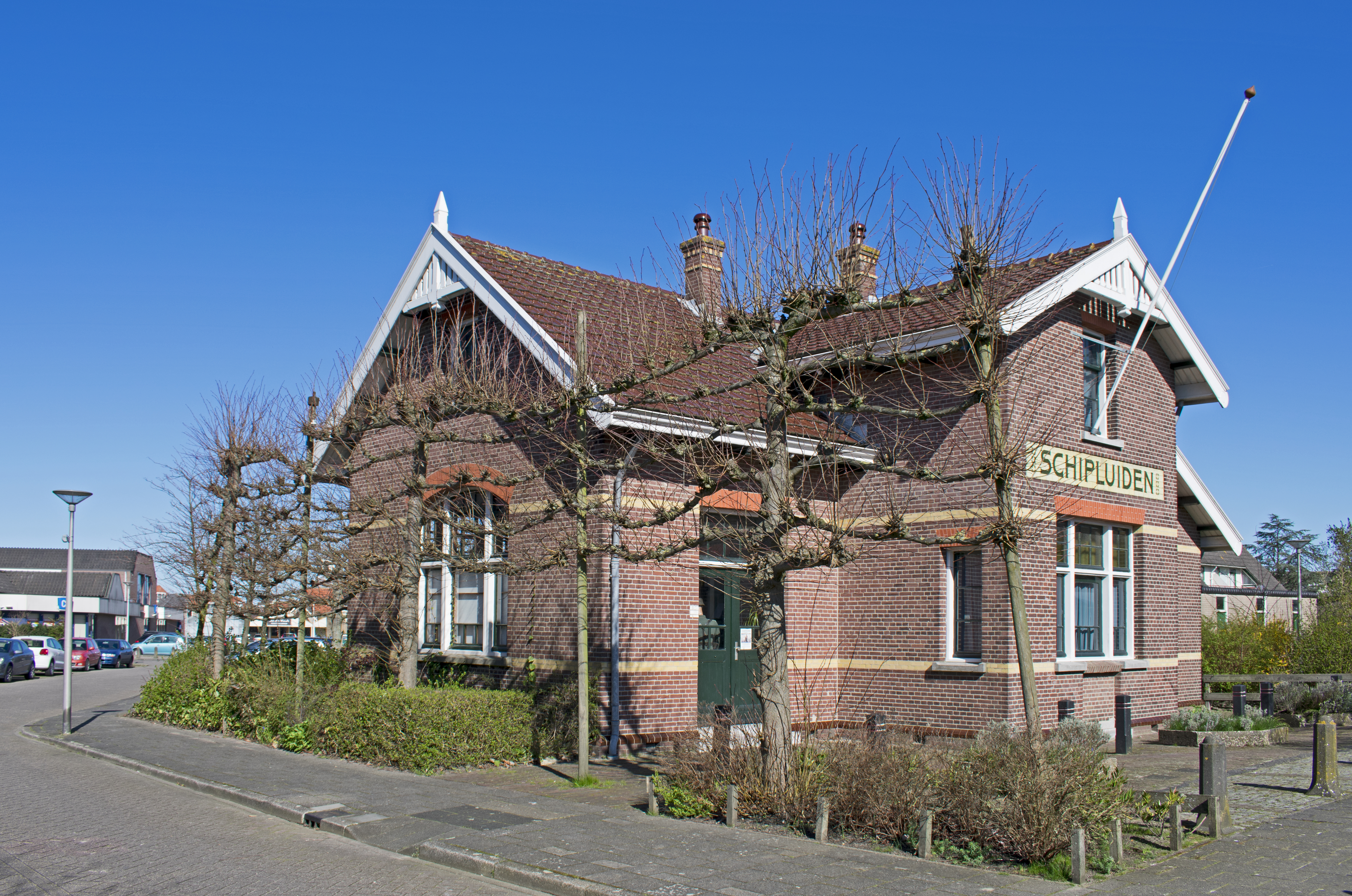 Tram station, currently a museum, Schipluiden